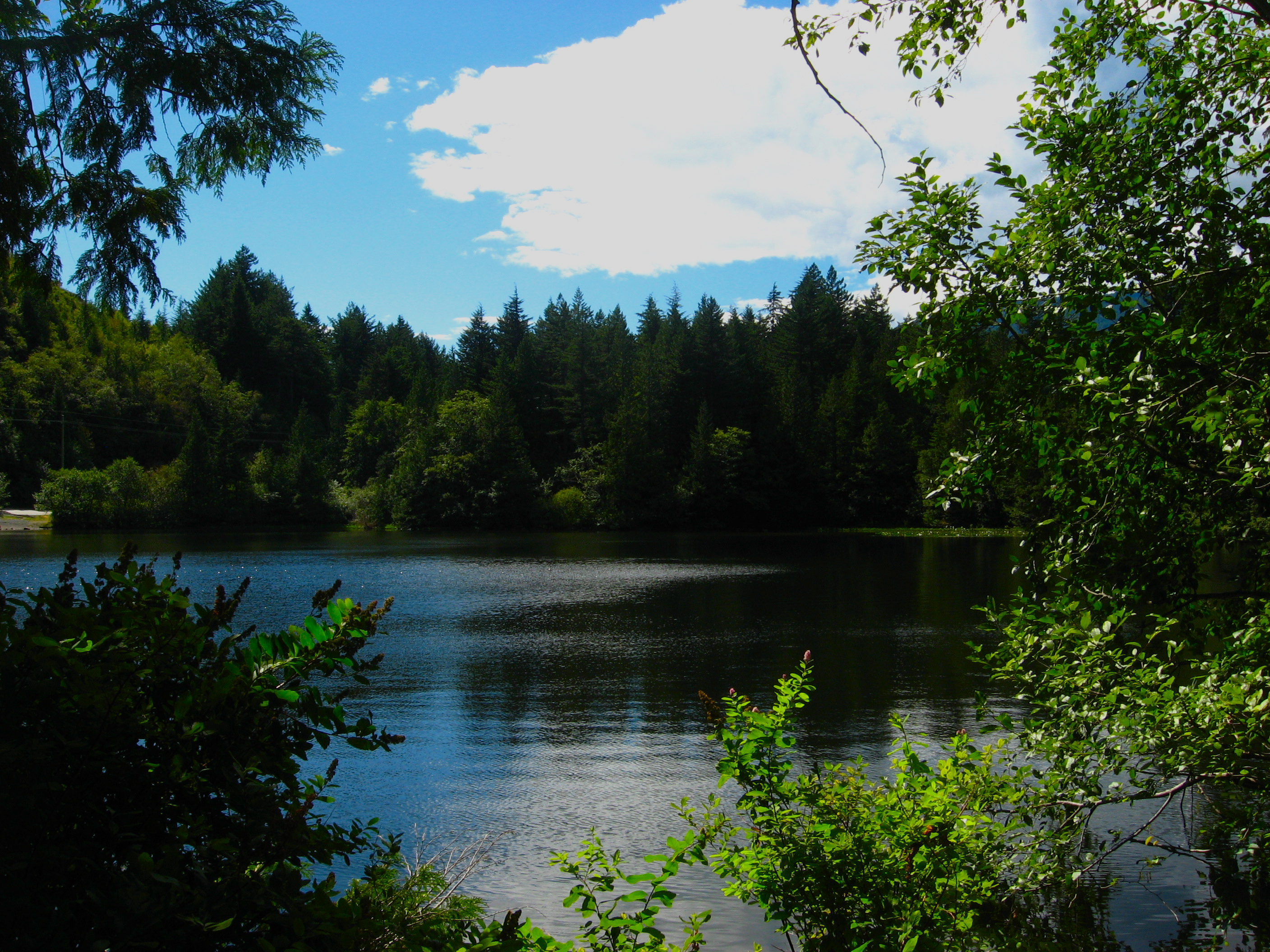 Murrin Prov Park, BC, Canada